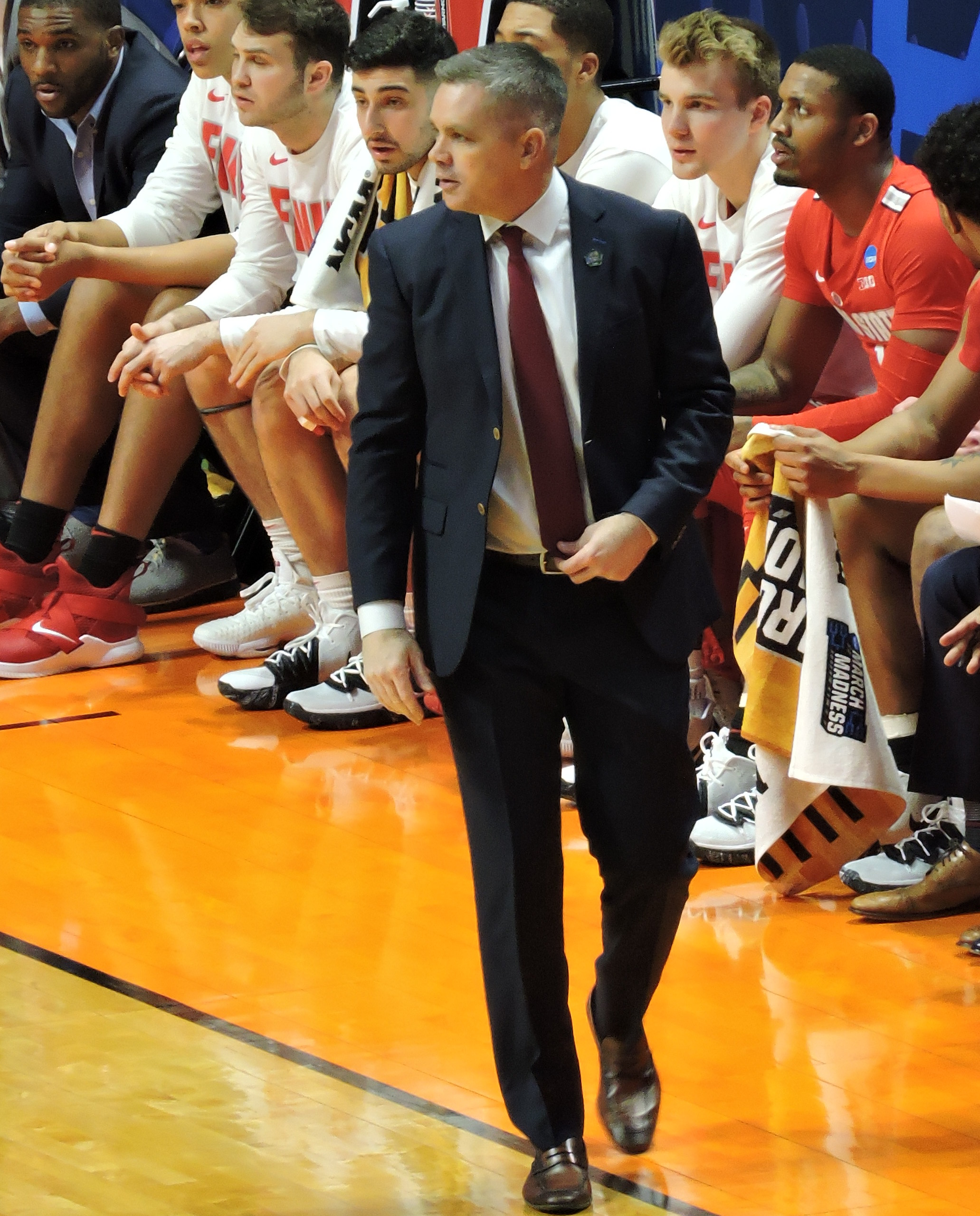 Ohio State Head Coach Chris Holtmann on the sideline at the BOK Center in Tulsa, Oklahoma during the 2019 NCAA Basketball Tournament.